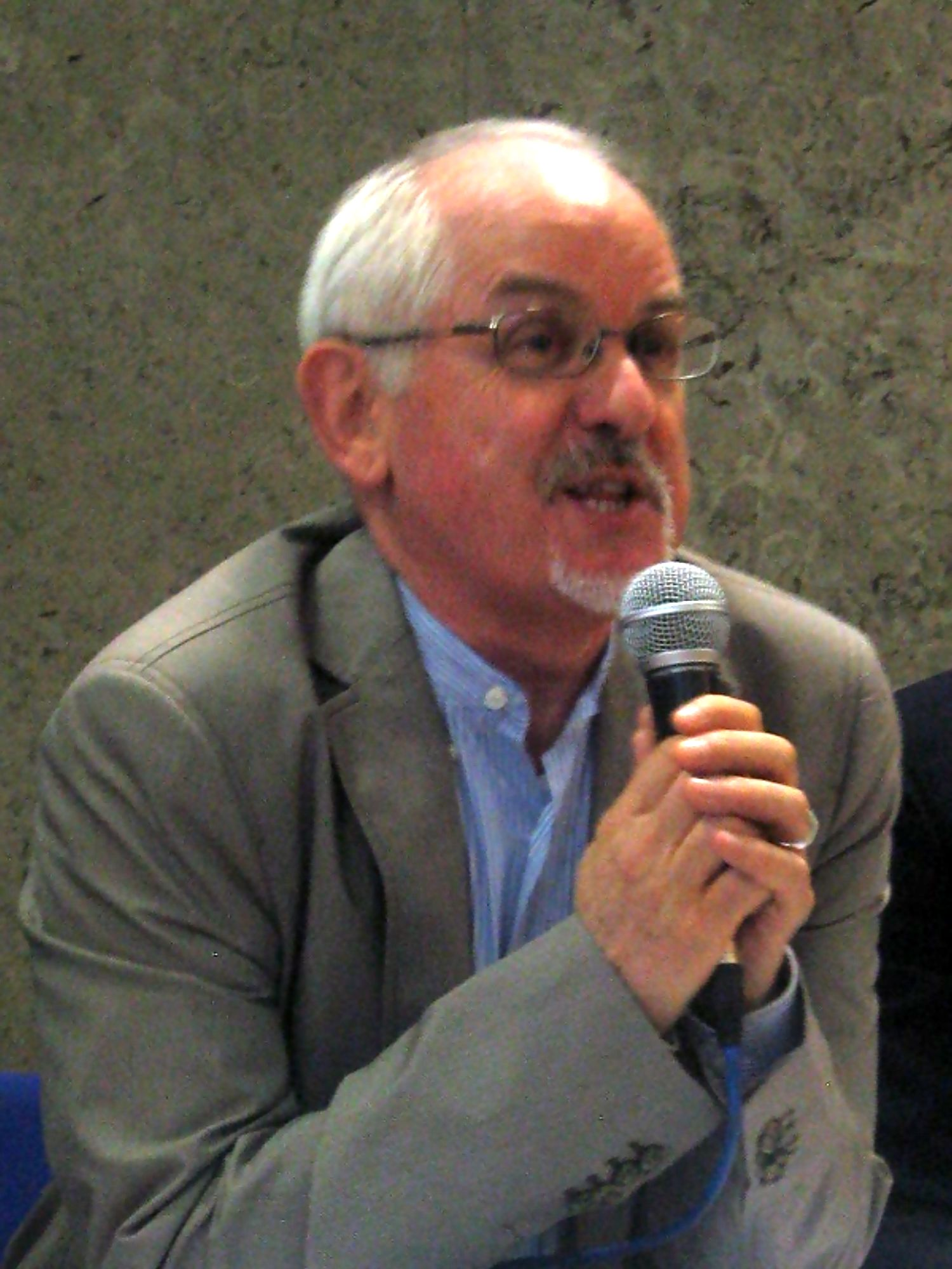 A pictures of Gianfranco Bianco, journalist of the Piedmont RAI TG.